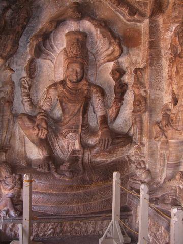 This Photo was taken by Mr. Sudarshan Bhat Khandige during his visit to Pattadakal-Badami (Karnataka state, India) in 2006. The Photograph has been uploaded with full permission from the owner.